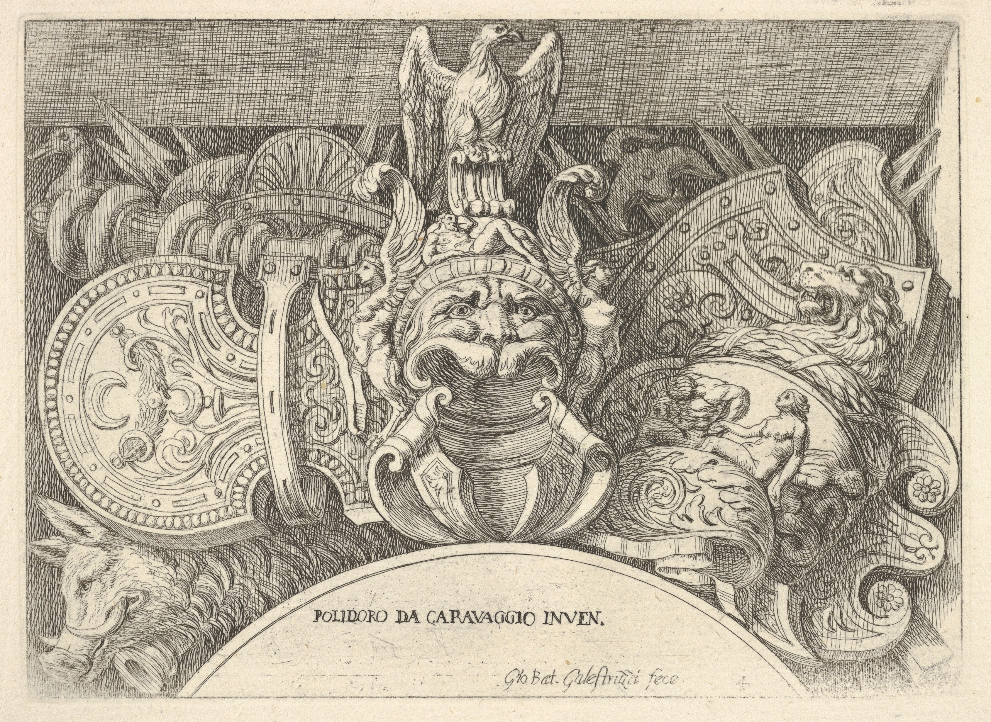 Print; Prints